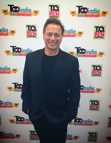 Actor Jeff Wincott appears at the showing of two of his films at the Toronto Independent Film Festival September 8, 2018.